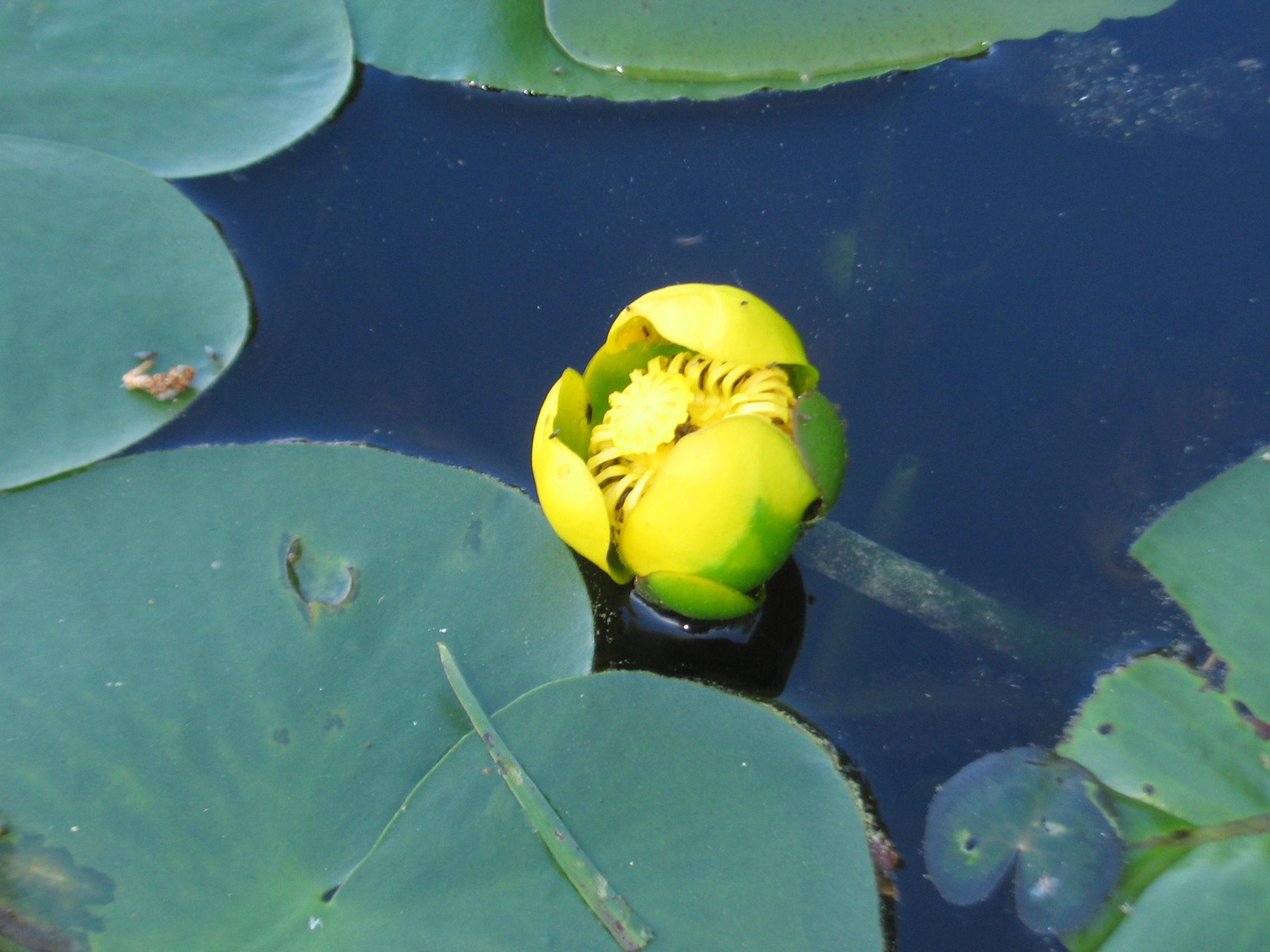 Closeup photo of a bullhead lily (Nuphar variegata) blossom. Photo taken in Sandogardy Pond, Northfield, New Hampshire, USA.